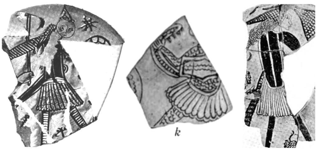 Collage of three images from the 12th century, Sgraffuto pottery fragments showing Greek Warriors wearing the pleated Fustanella, from Corinth, Greece.[1]